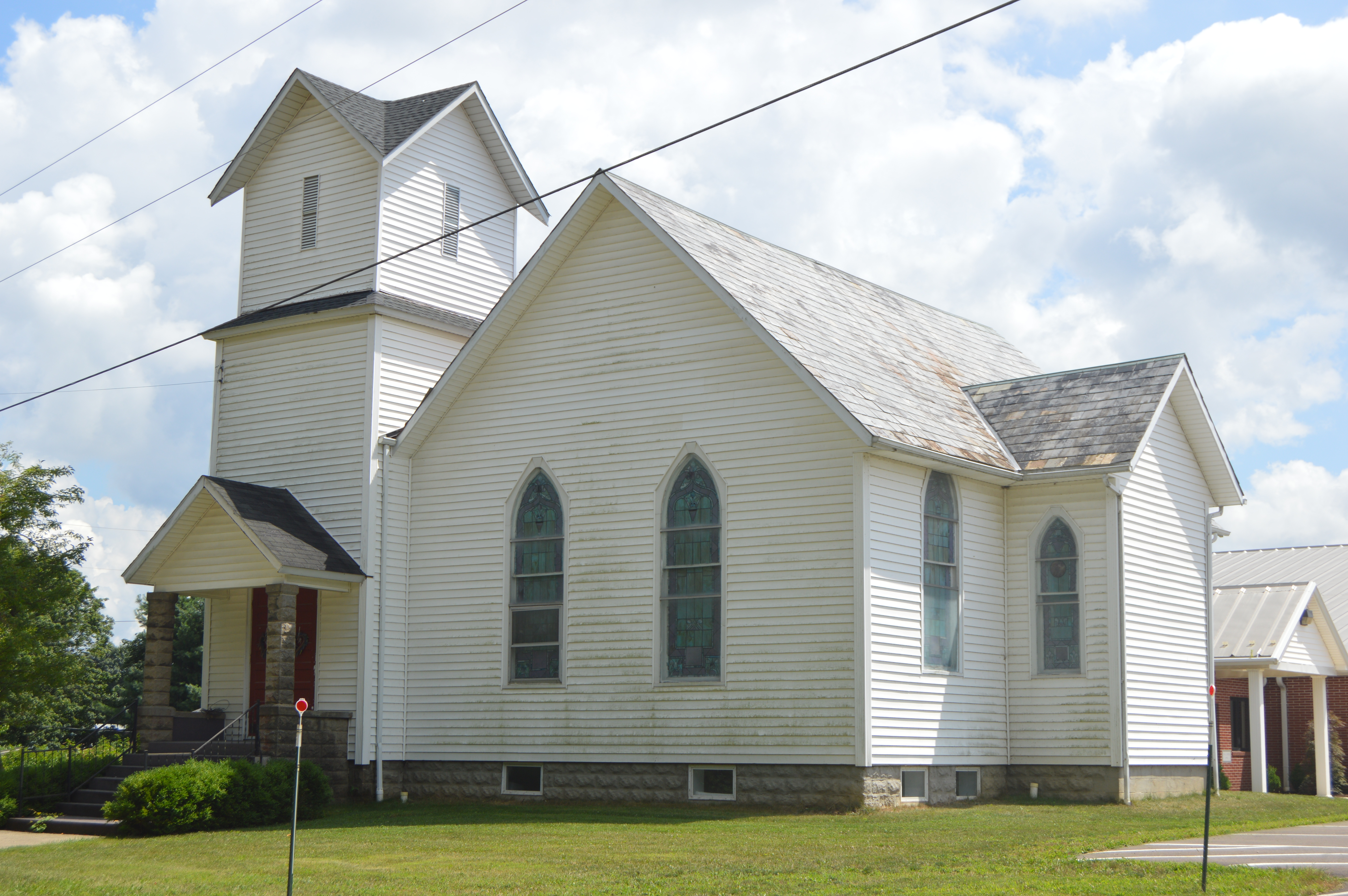 Front and western side of Highwater Congregational UCC, located at 1213 Dutch Lane at Highwater in McKean Township, Licking County, Ohio, United States.